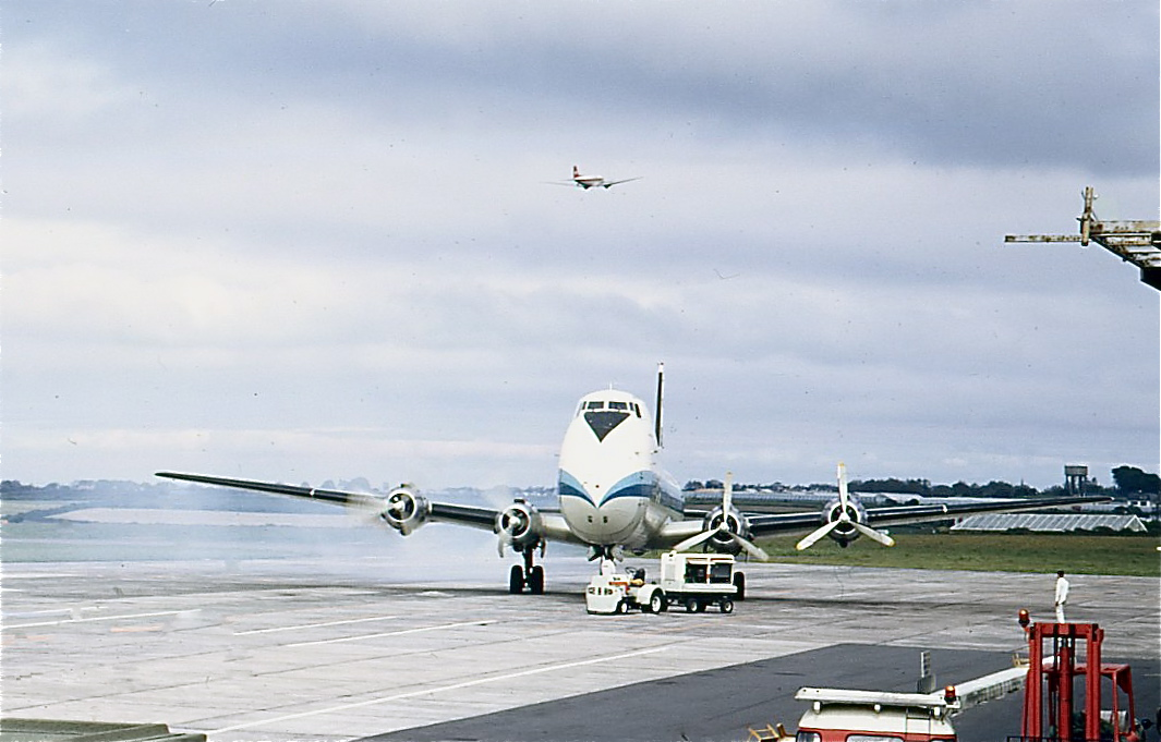 British Air Ferries ATL-98 Carvair at Guernsey Airport